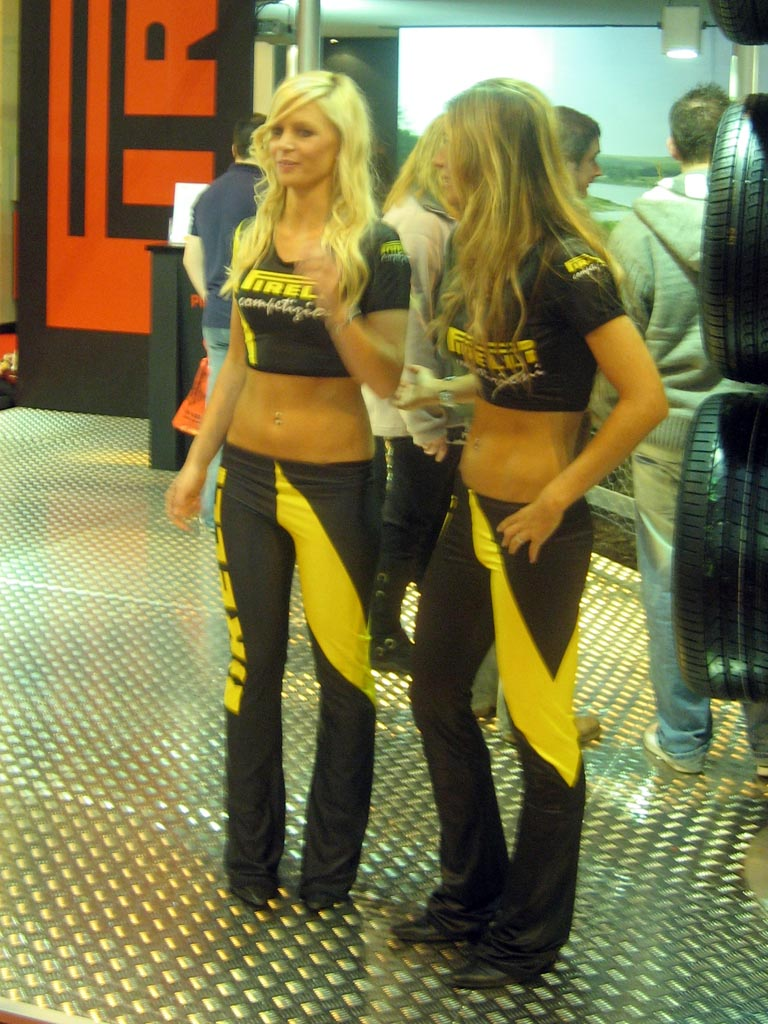 Blonde pirelli hostesses in crop tops.